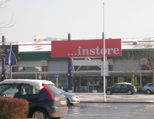 Instore - Crown Point Retail Park